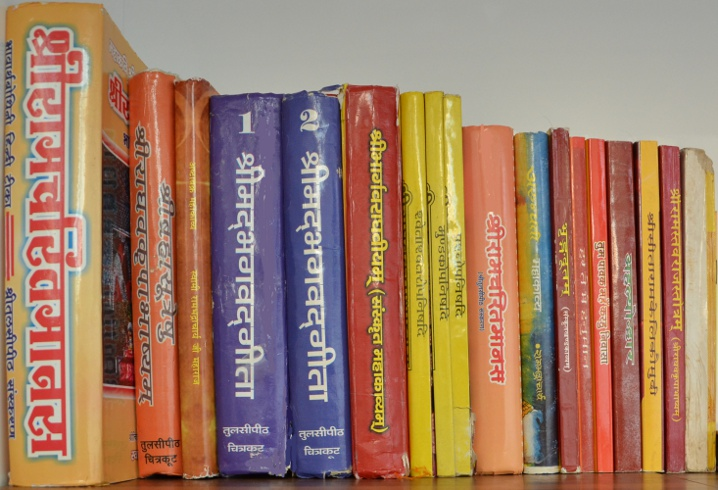 Some commentaries, epics and other works composed by Jagadguru Rambhadracharya